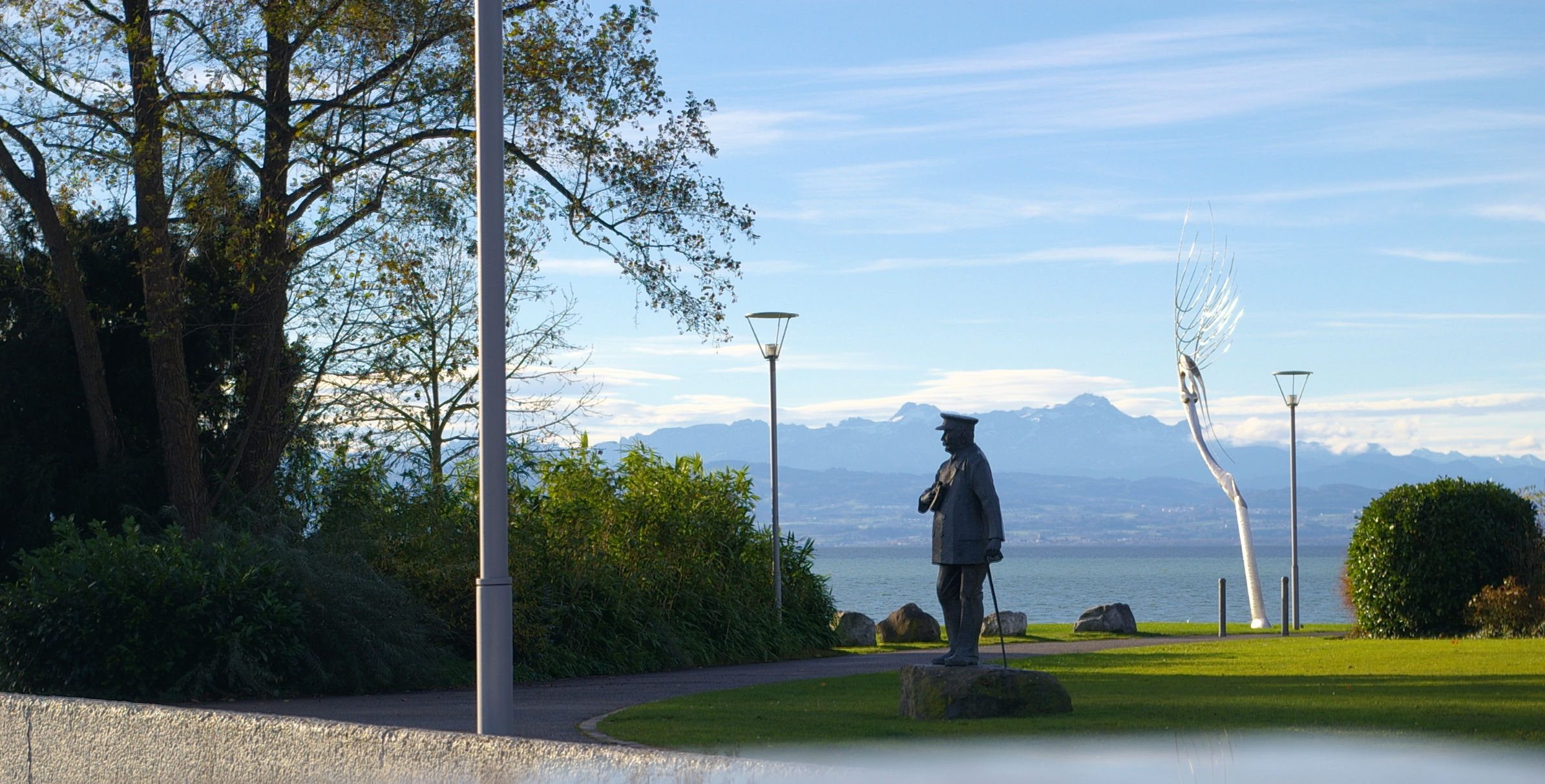 Friedrichshafen Statue of Graf Zeppelin at Graf-Zeppelin-Haus before the Säntis. The picture is an HDRI, it has been created from a 3 picture exposure series with the FDR Tools. At end, something at the bottom was removed with the "crop" function of imagegmagick.